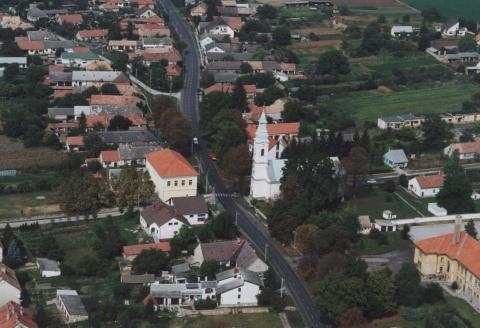 Nagydorog, Hungary, aerialphotography This is a photo of a monument in Hungary. Identifier: 8677